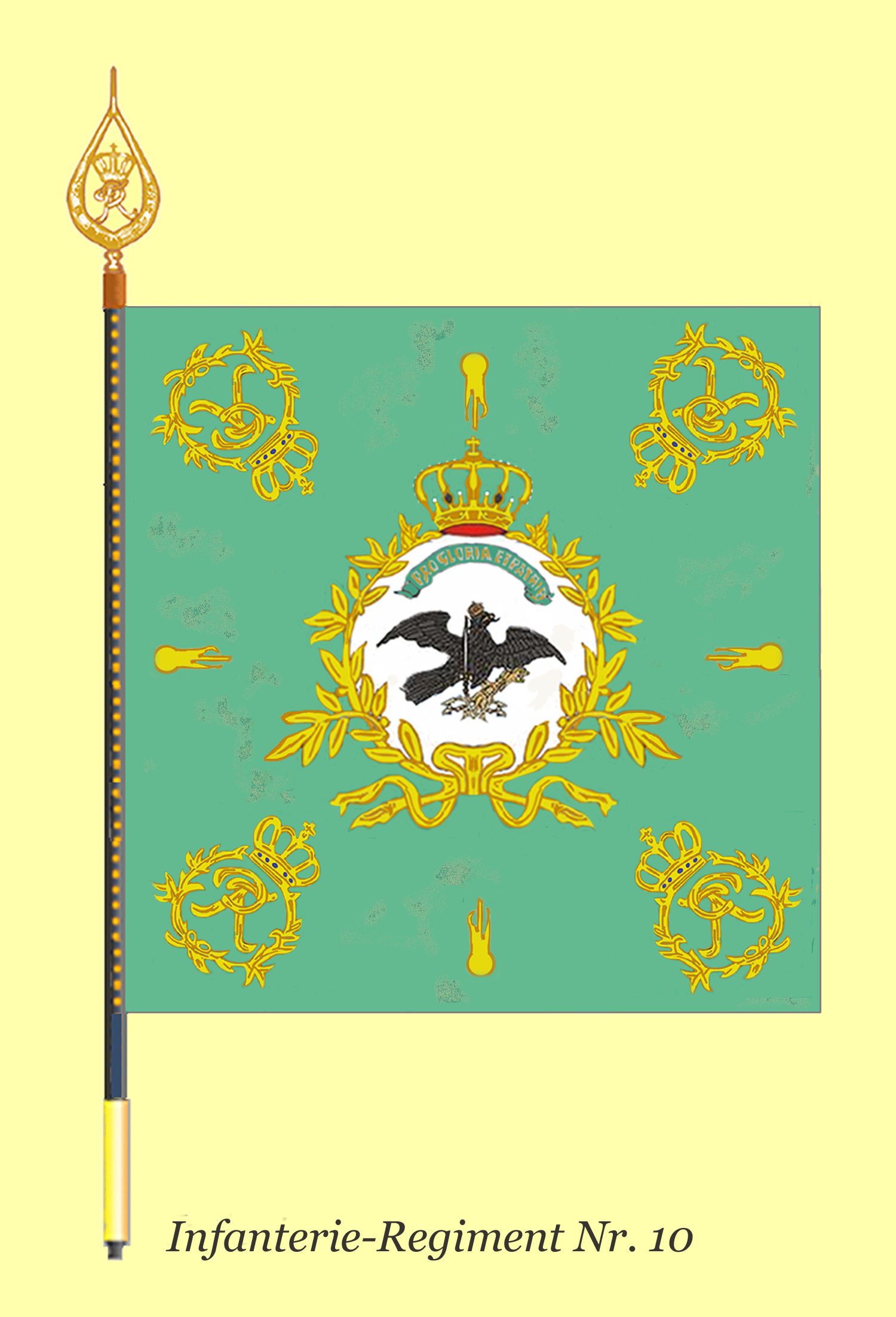 Colors of the royal prussian 10th Regiment of infantry about 1761